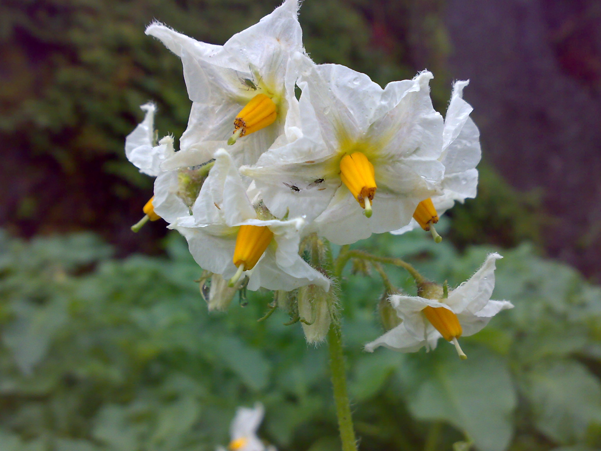 Solanum tuberosum "Beate", potato flower of the ssp "Beate". Norway.